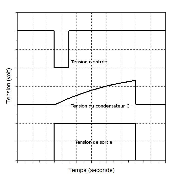 NE555 in a monostable configuration waveforms